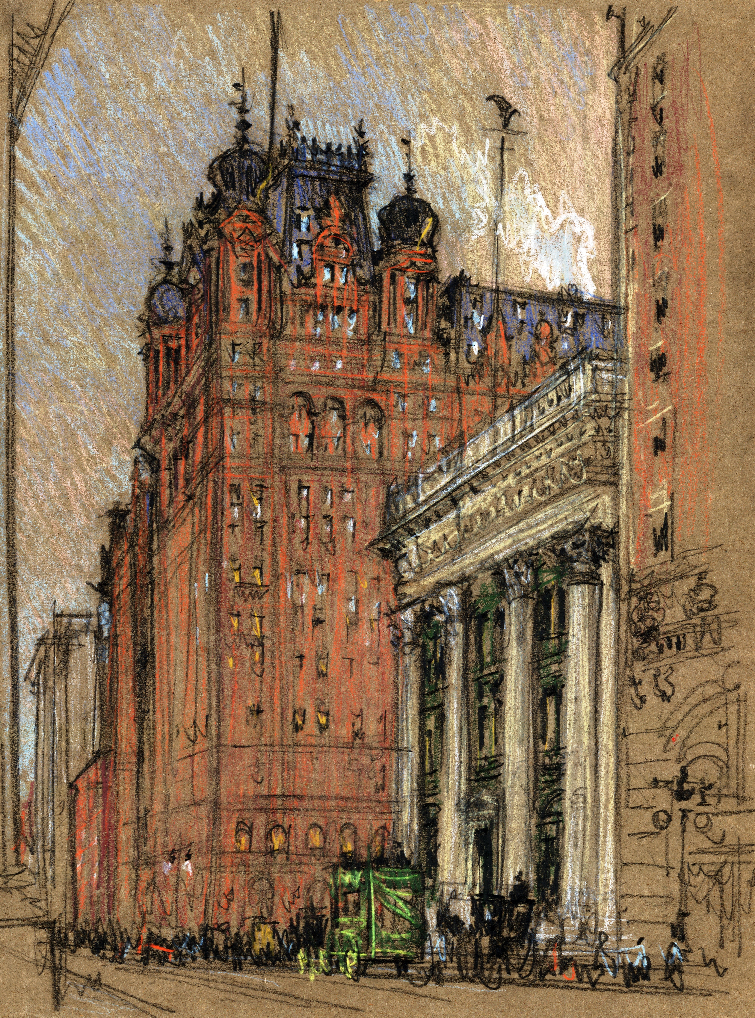 Waldorf Astoria Hotel, Thirty-Fourth Street and Fifth Avenue (original location). 1 drawing on brown paper : colored crayons over pencil sketch ; sheet 29.3 x 23.1 cm.